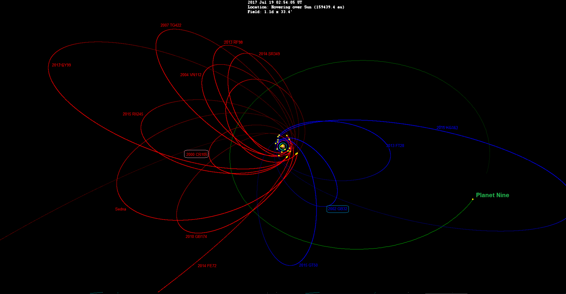 Planet Nine 15 eTNO [1] object orbits relative to hypothetical planet 9. anti-aligned orbits red, others blue.